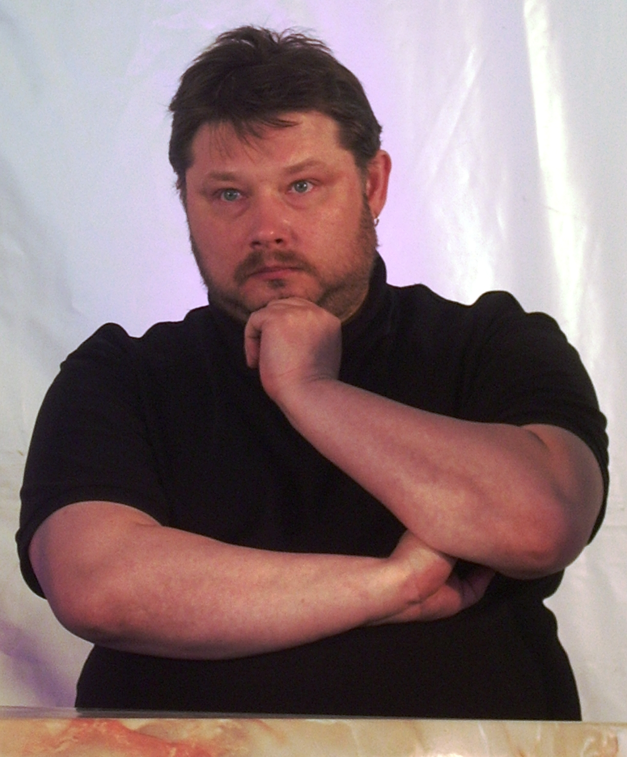 Indrek Hargla (born 1970) is an Estonian science fiction writer. Performing during Tallinn Literature Festival.